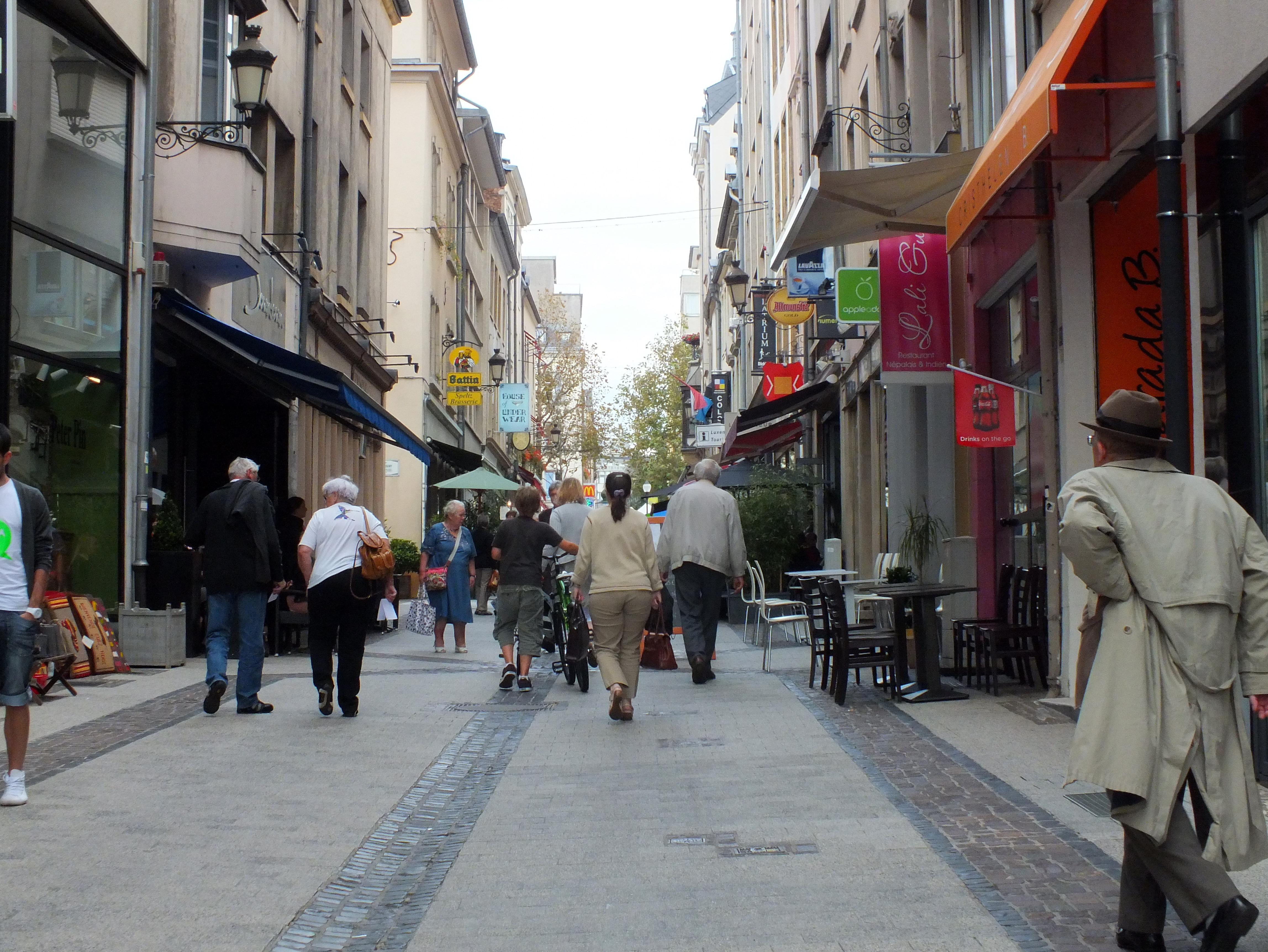 Rue Chimay, northbound, pedestrian zone, Luxembourg City.